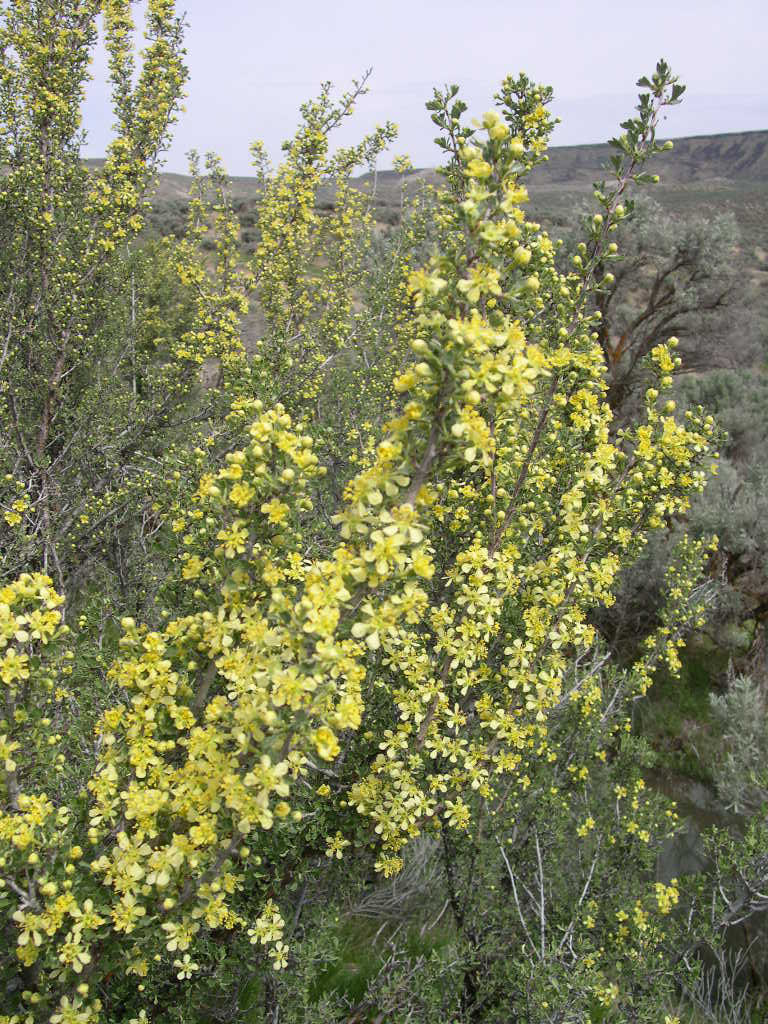 Purshia tridentata flowers in southwest Idaho